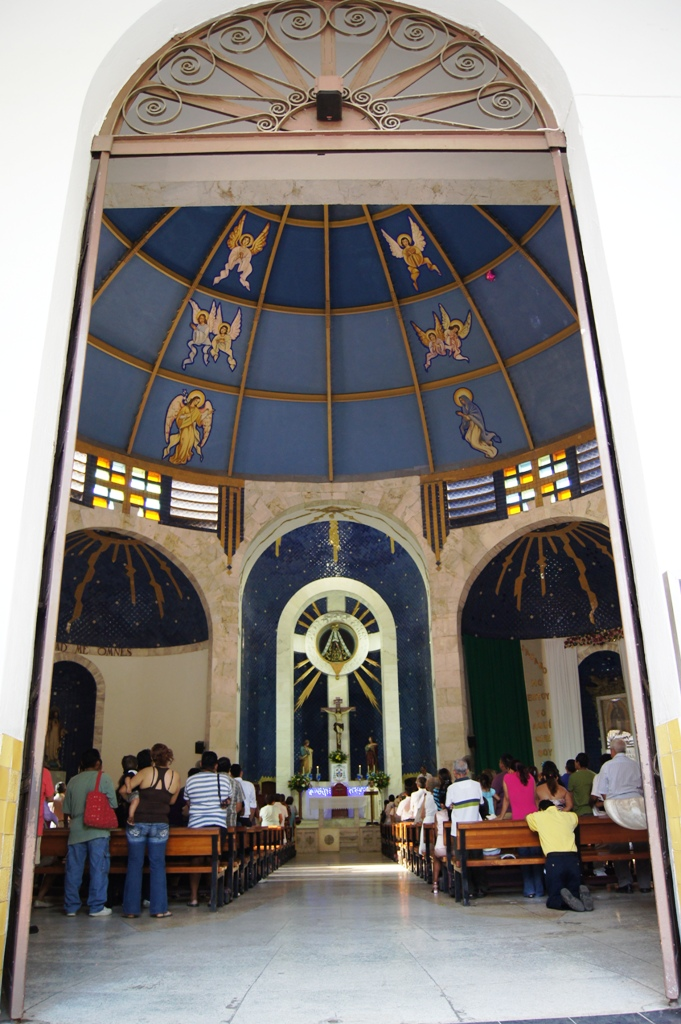 Cathedral of Nuestra Señora de la Soledad in Acapulco, Mexico. Interior view shows the decor with blue and golden mosaics, covering the dome.